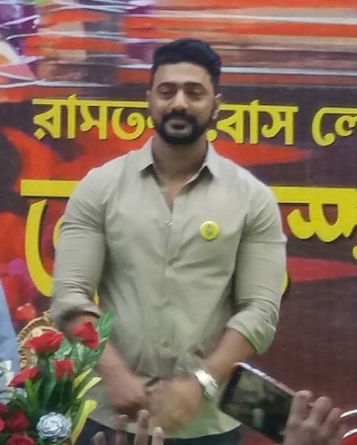 Dev Bangla film actor.